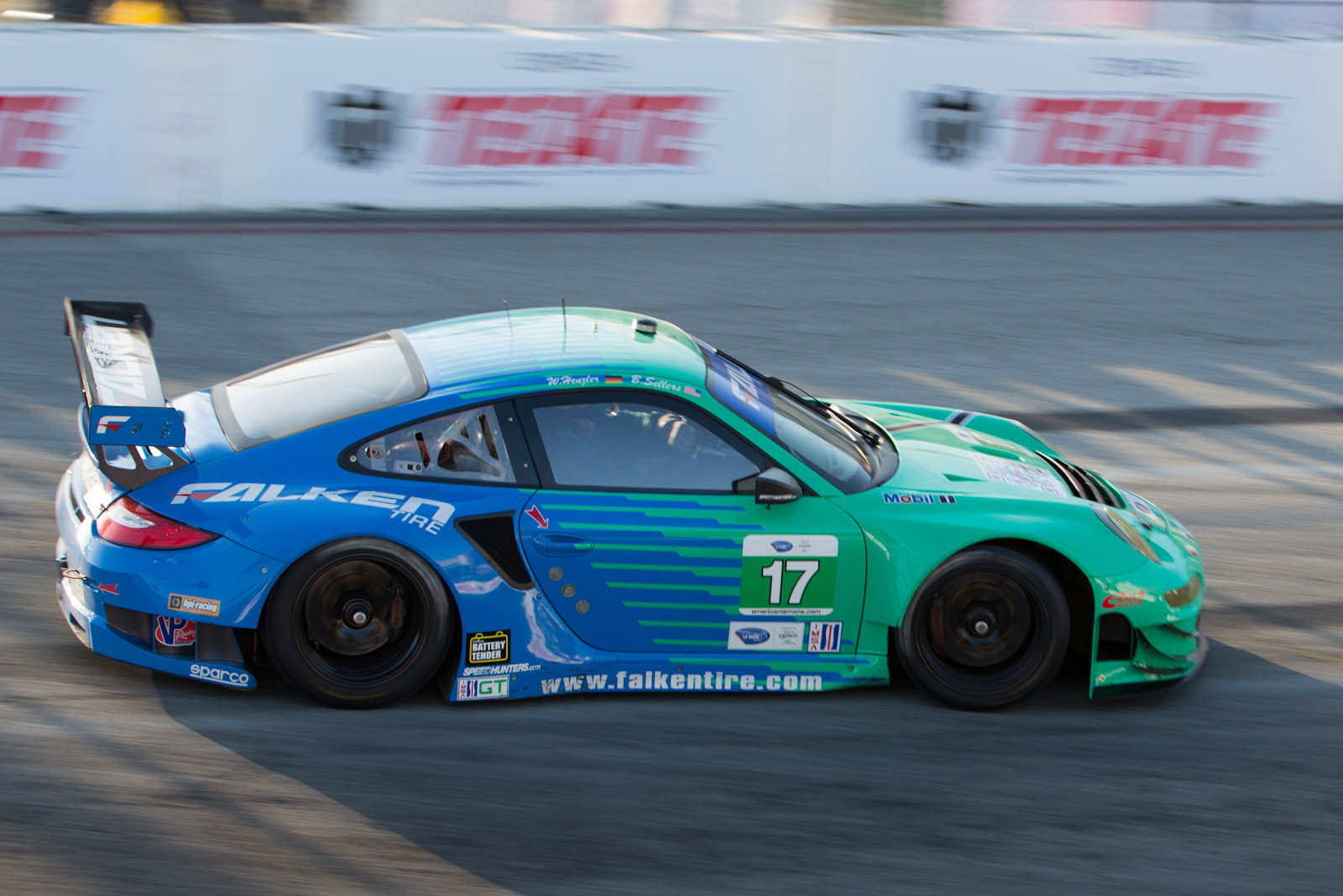 The Team Falken Tire Porsche 997 GT3-RSR at the 2012 American Le Mans Series at Long Beach.